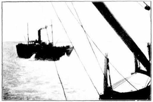 The SS Winfield towing the stern of the SS Koombana off a sandbank in Shark Bay, Western Australia. Koombana had been stranded on the sandbank since the morning of 15 March 1909.